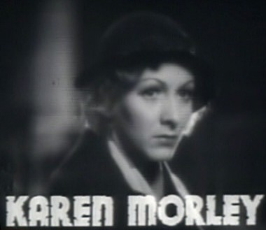 Cropped screenshot of Karen Morley from the trailer for the film Black Fury (1935).